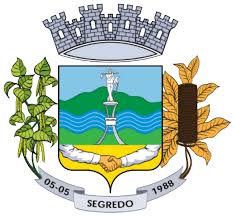 Coat of arms of the city of Segredo, Rio Grande do Sul, Brazil.